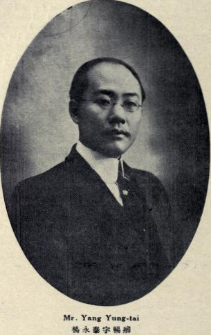 Yang Yongtai, Changqing (1880 - 1936)